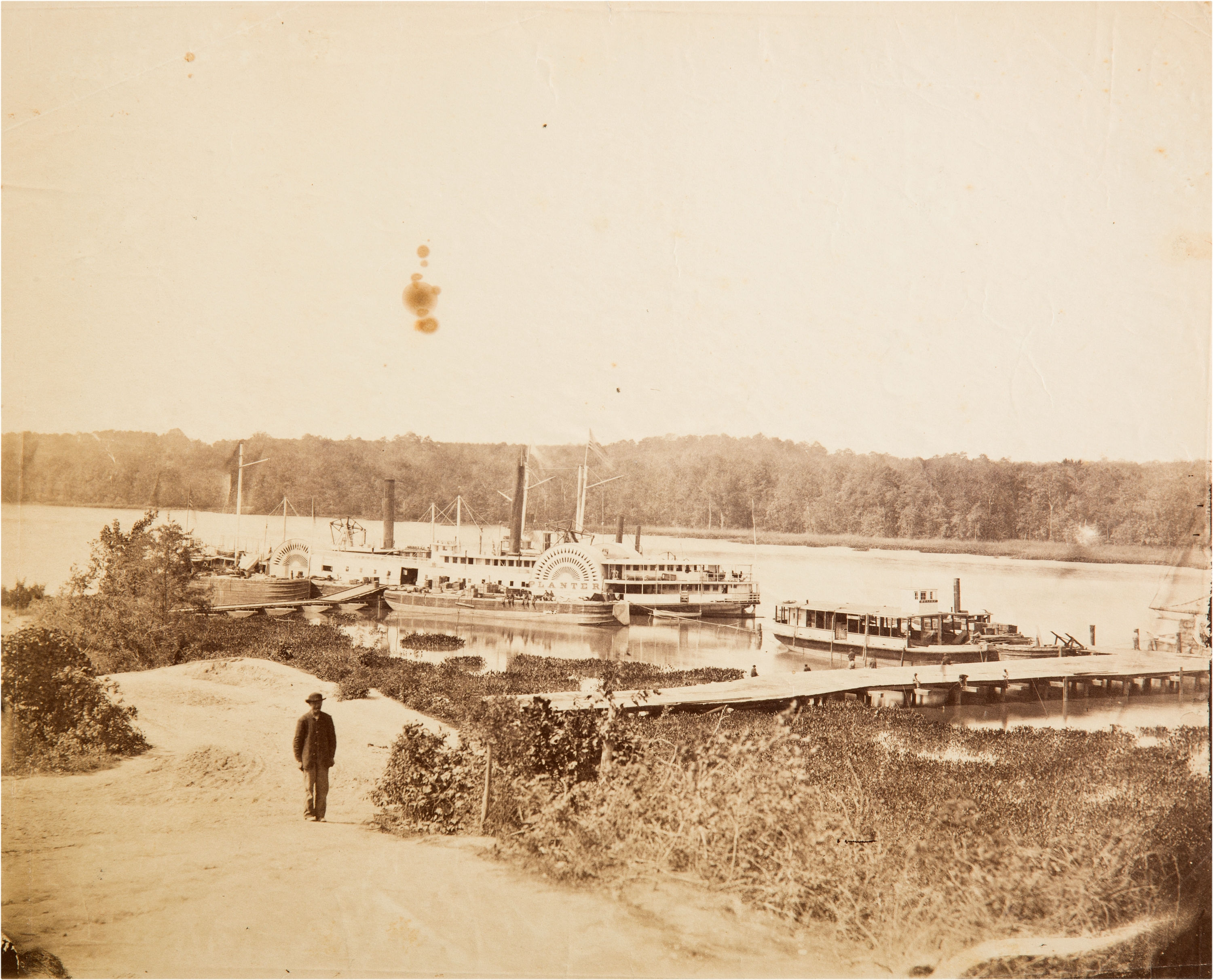 9 1/2" x 7 1/2" Civil War period albumen photo of steamboats and two smaller craft docked on an unidentified river. One of the steamboats is the "Planter" while one of the smaller ships is the "Relief". The location might be Simmons Bluff, South Carolina or Fort Pulaski, Georgia.